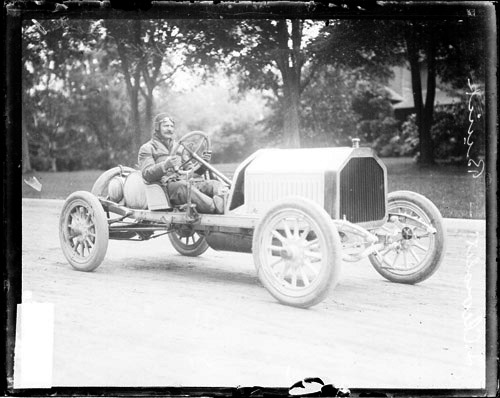 Louis Chevrolet in a Buick racer in Crown Point, Indiana, during the Cobe Cup Race in 1909